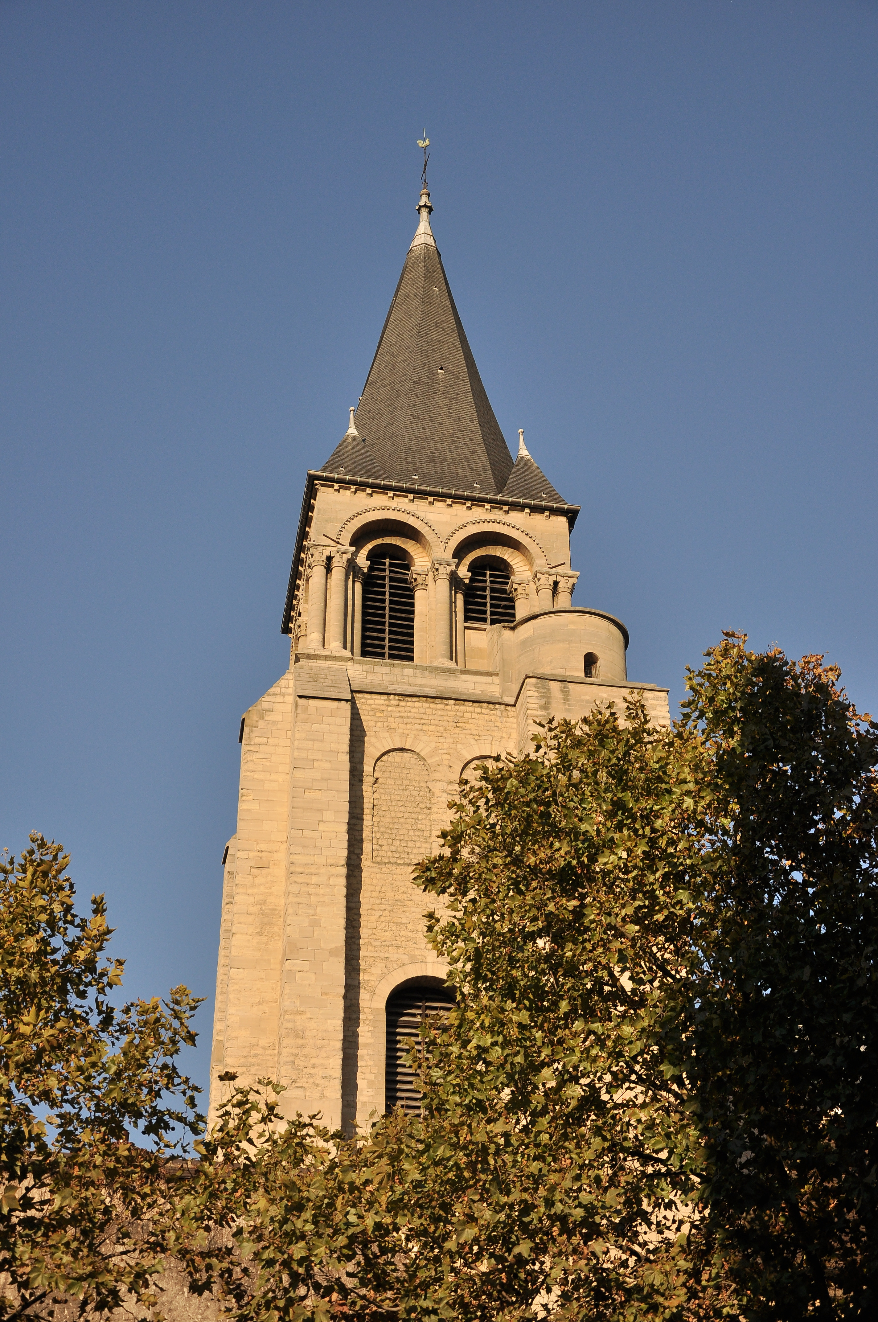 Abbey of Saint-Germain-des-Prés in the 6th arrondissement of Paris, France.